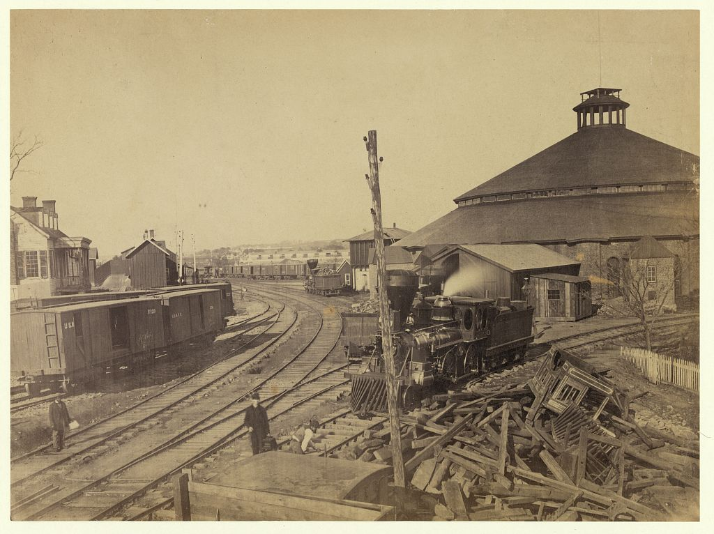 Eastern view of round house and depot, Orange and Alexandria Railroad. Photograph shows a locomotive moving away from the roundhouse at the Orange & Alexandria railroad yard in Alexandria, Virginia. Railroad signal lights on pole in foreground.